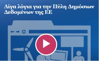 Screenshot from EUODP